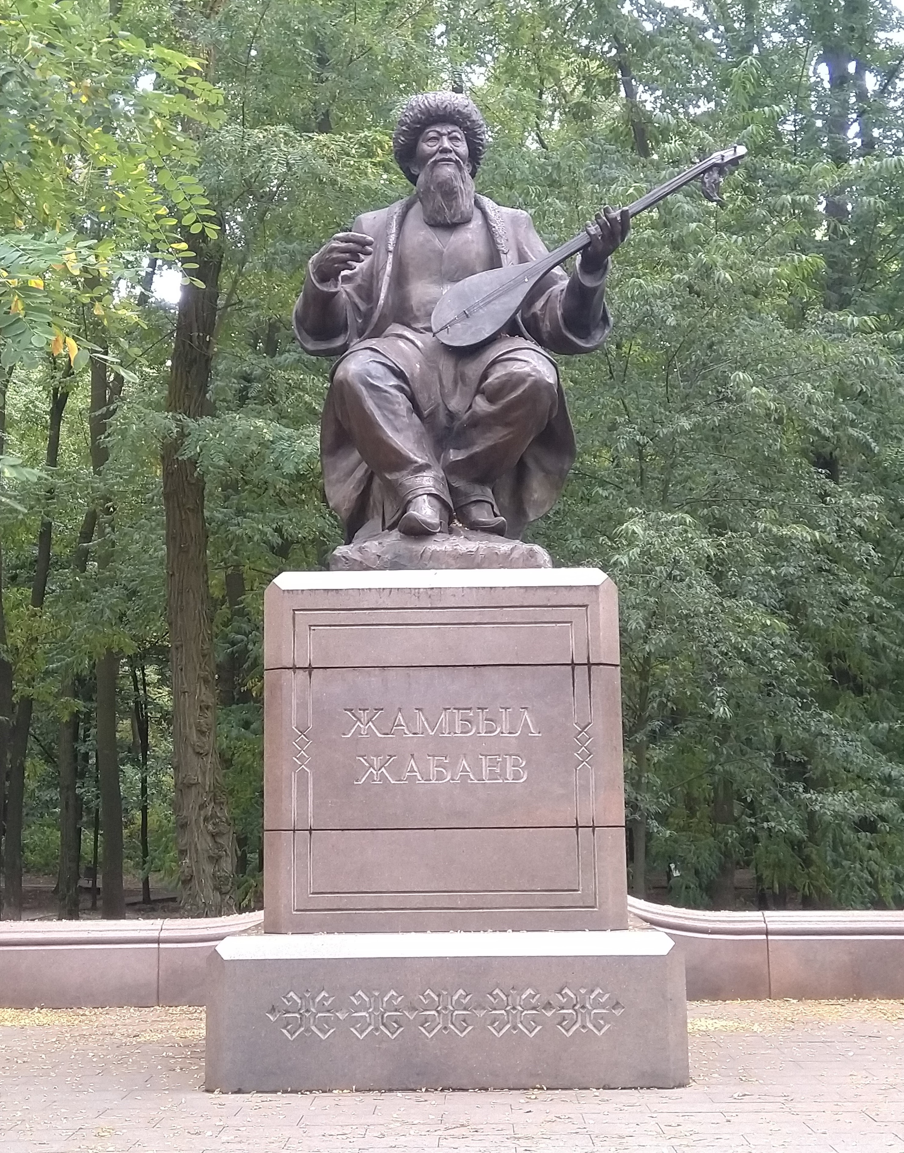 Zhambyl Zhabayuly Monument in Nyvky Park in Kyiv